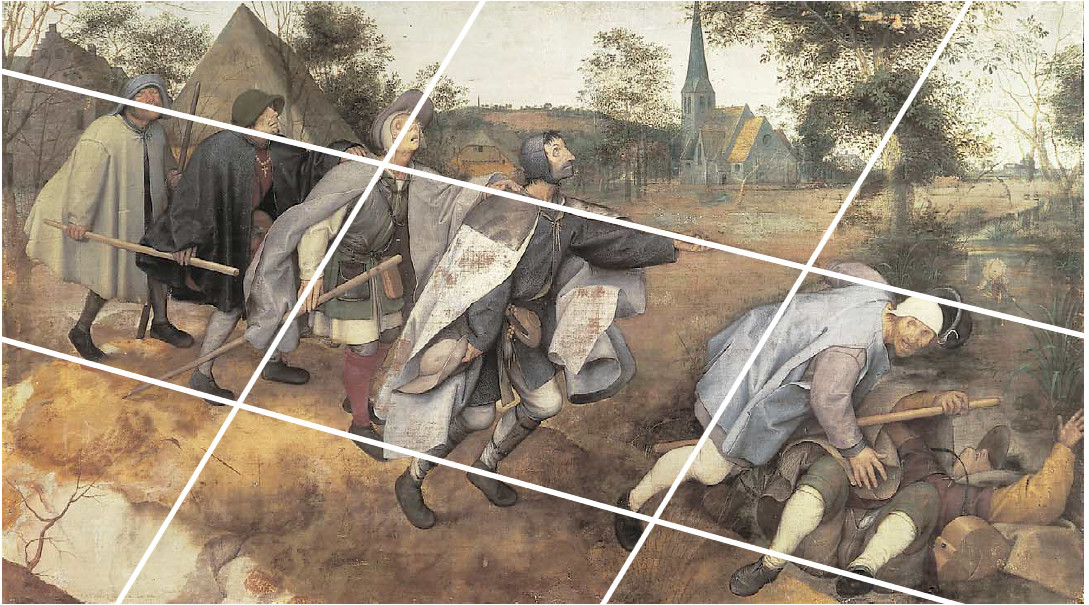 Composition analysis of The Blind Leading the Blind by Pieter Bruegel the Elder. The diagonal composition can be broken into nine parts with two sets of parallel lines perpendicular to each other.